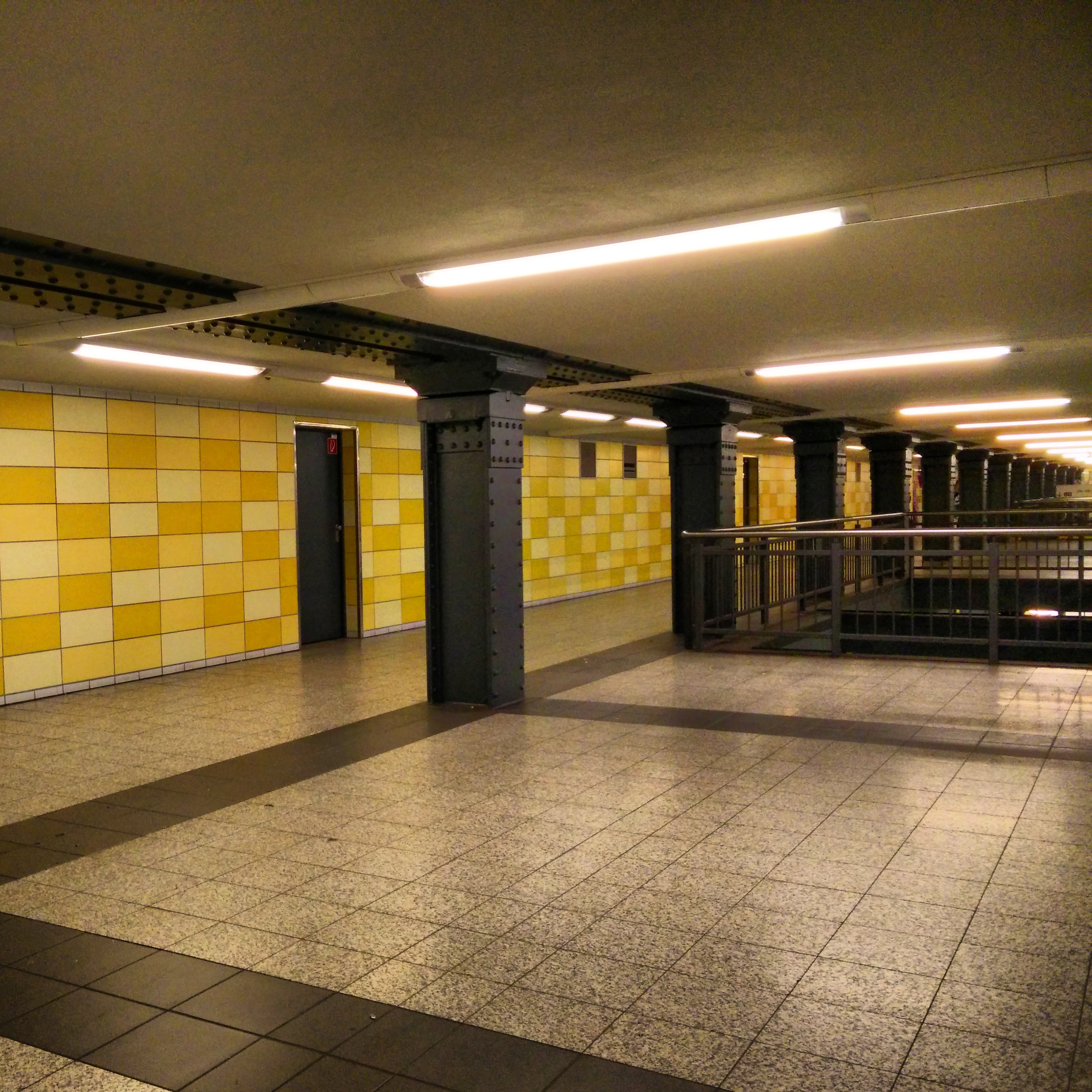 Berlin-Lichtenberg station in Germany.